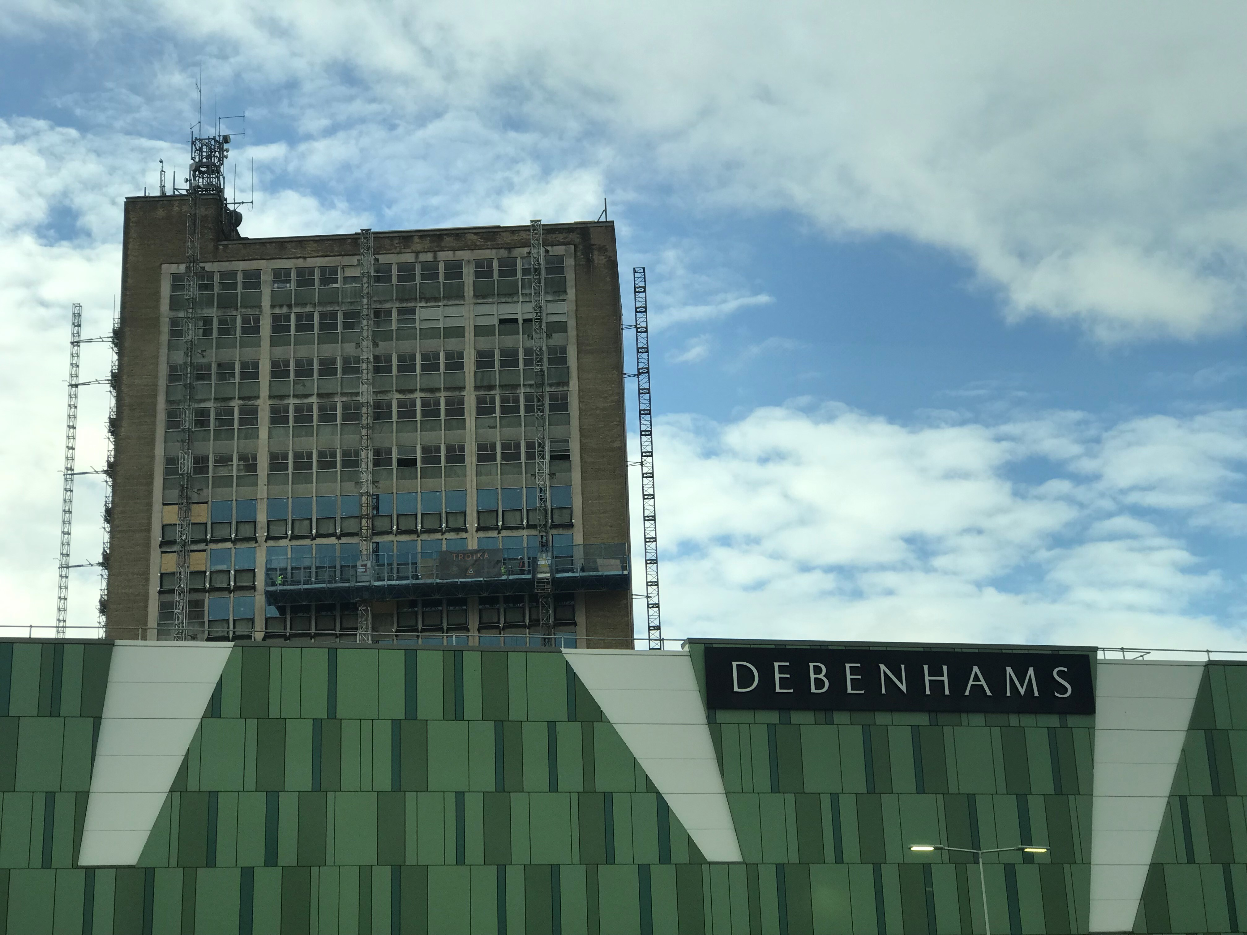 The Chartist Tower, a 53.3m tall building in Newport, Wales, constructed in 1966. The building is undergoing repairs to reopen as a multi purpose site in 2019.